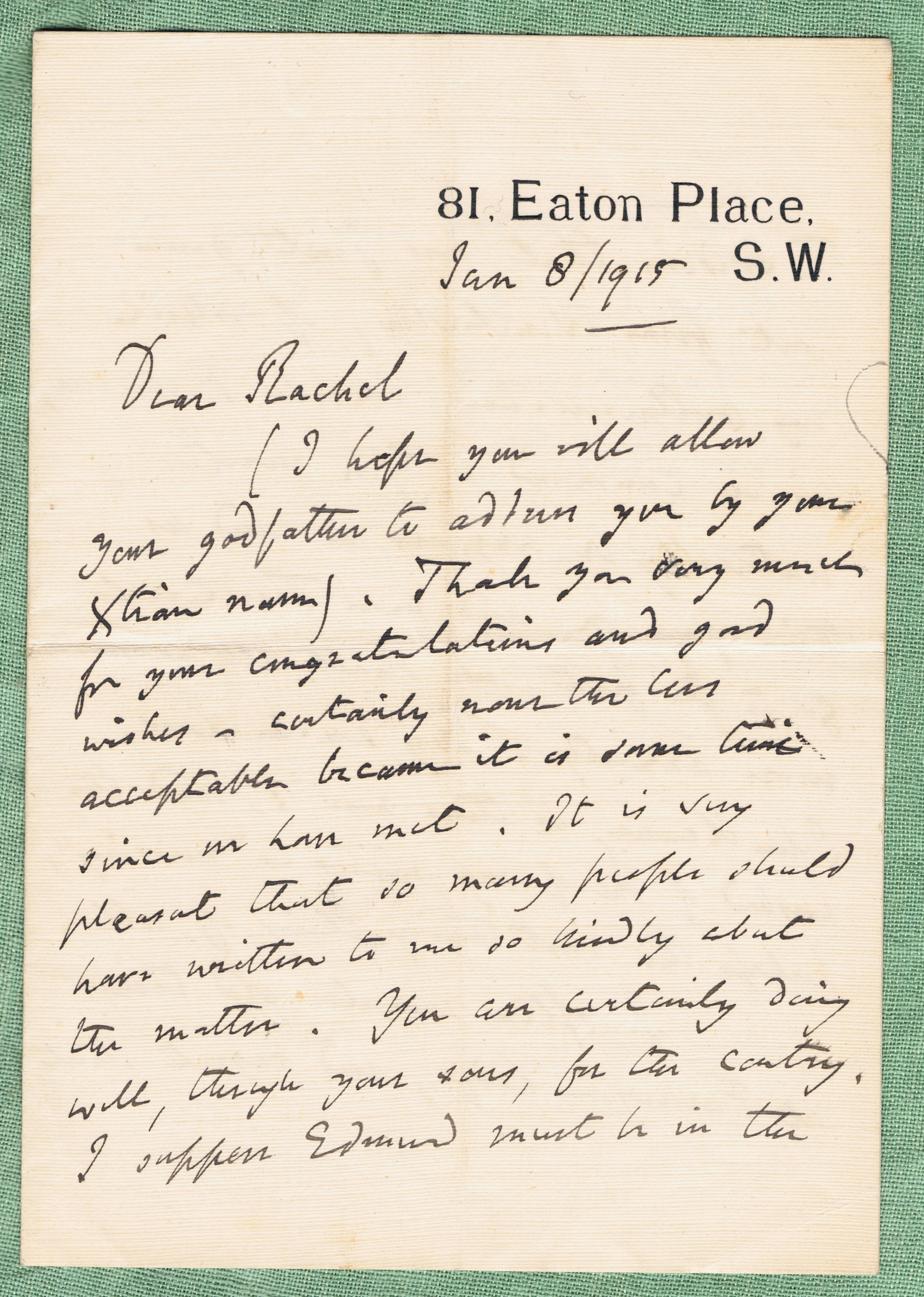 Part of Letter from St. Aldwyn to Rachel Waller (Mrs. Cecil Fane De Salis), 1915. Scan by me, R. de Salis, Rodolph2 (talk) 20:40, 16 December 2014 (UTC).